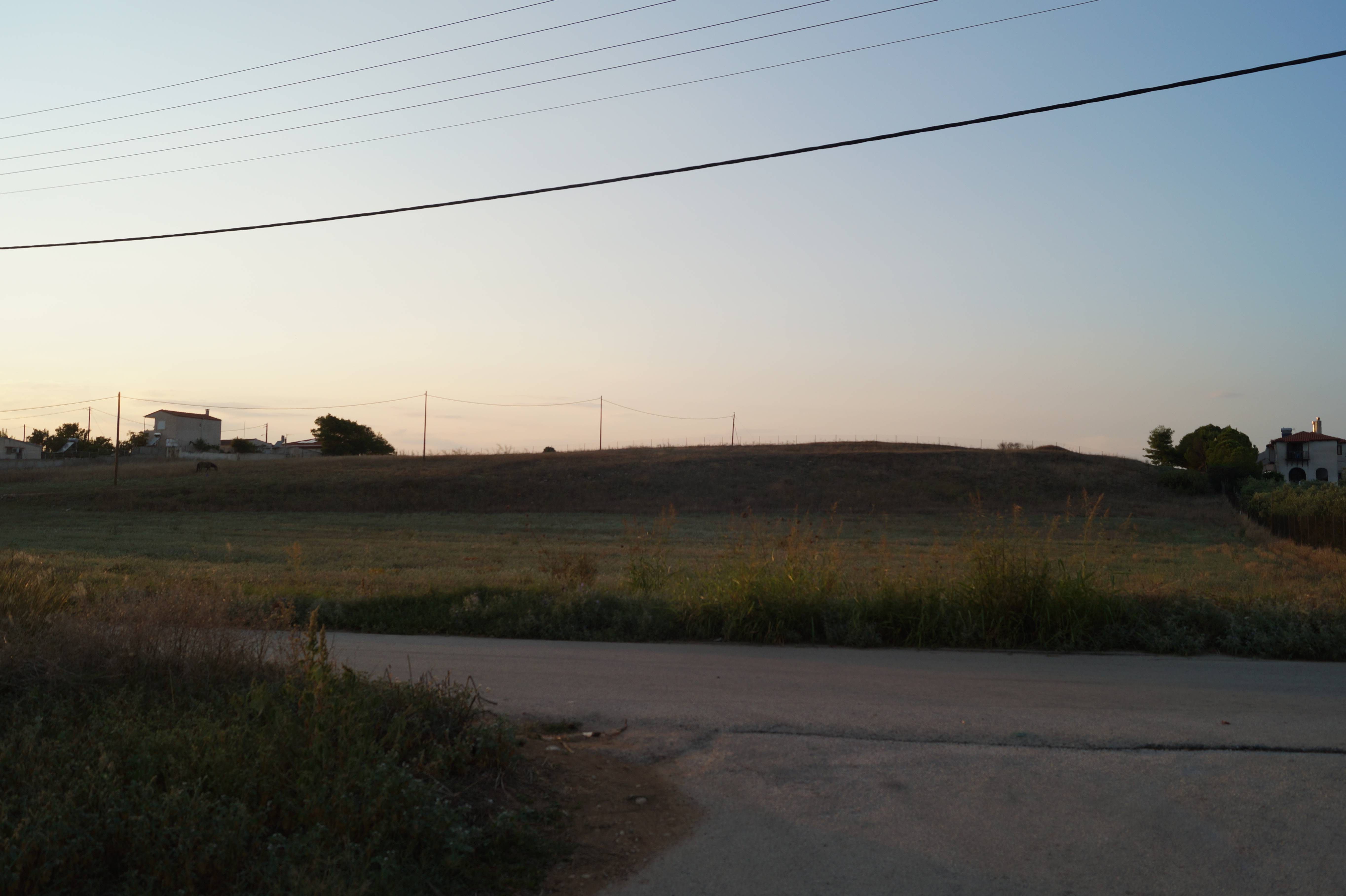 Corinth, Greece: View from the south on the hill where the archaeological site of Korakou lies.